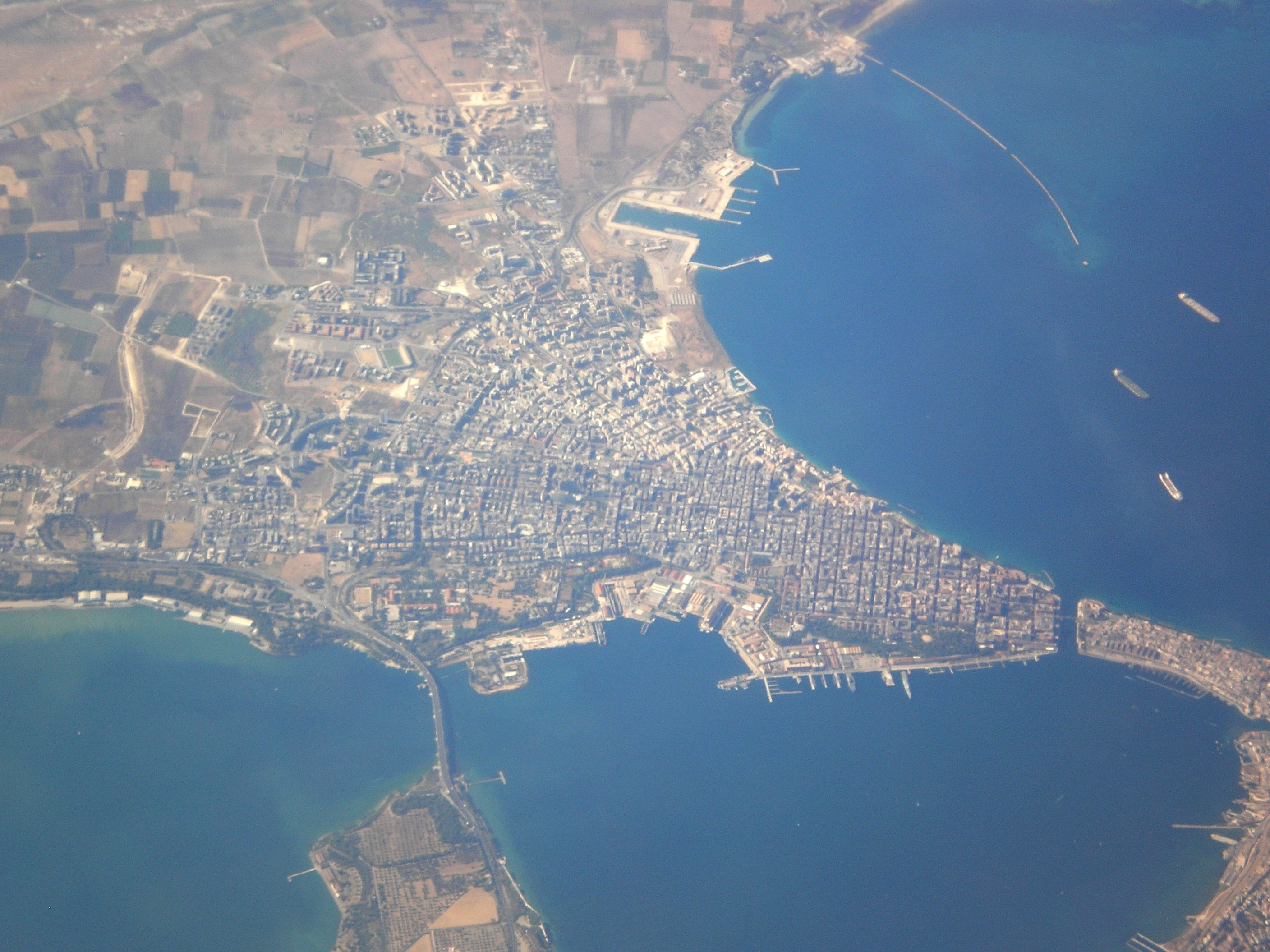 Aerial photograph of the city of Taranto, in Puglia, Italy.